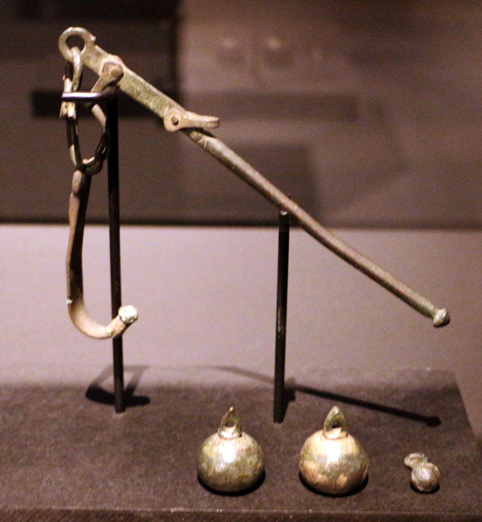 Neo Preistoria exhibition (Milan 2016)